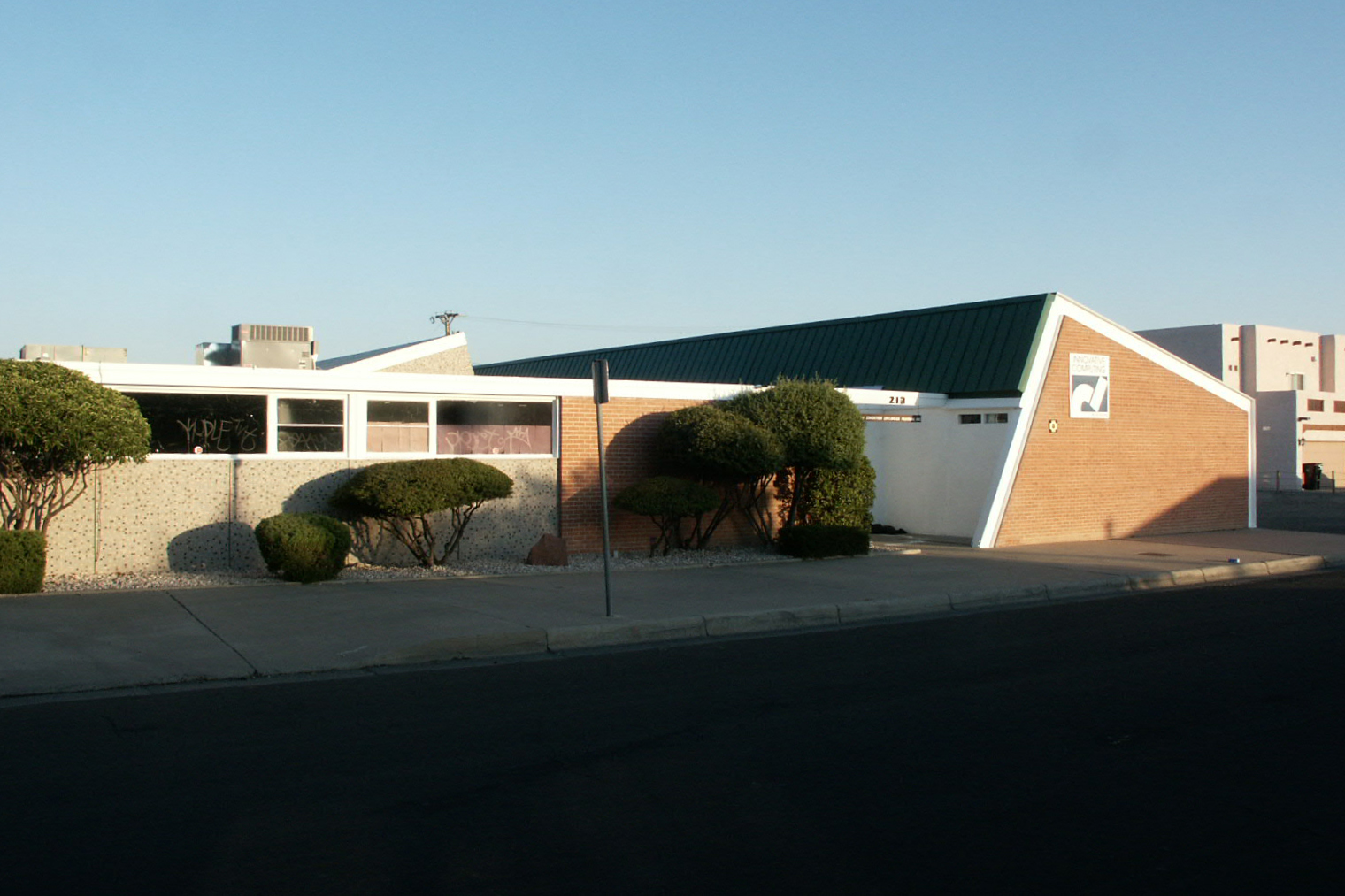 The Solar Building in Albuquerque, New Mexico, USA